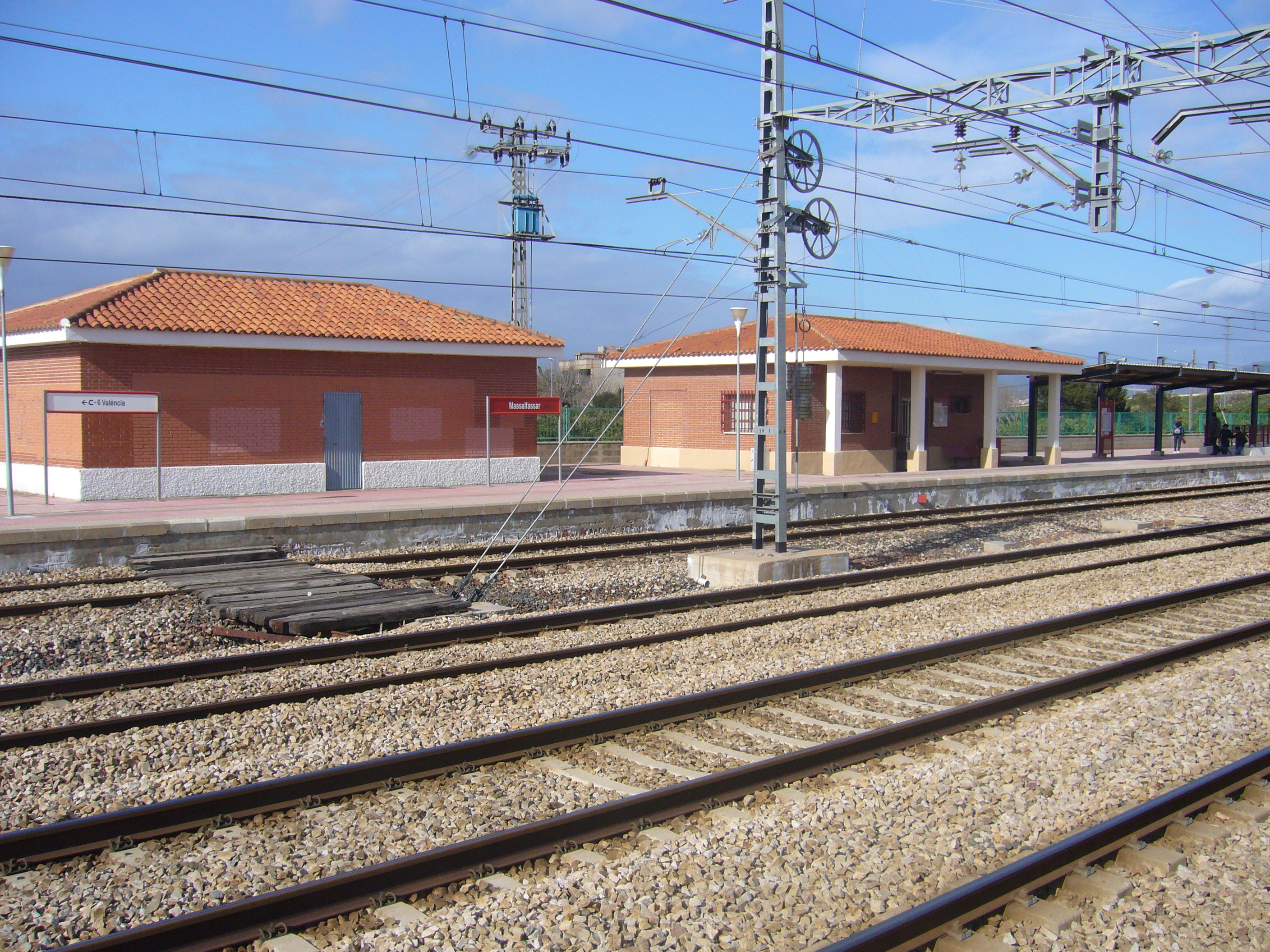 Massalfassar rail station